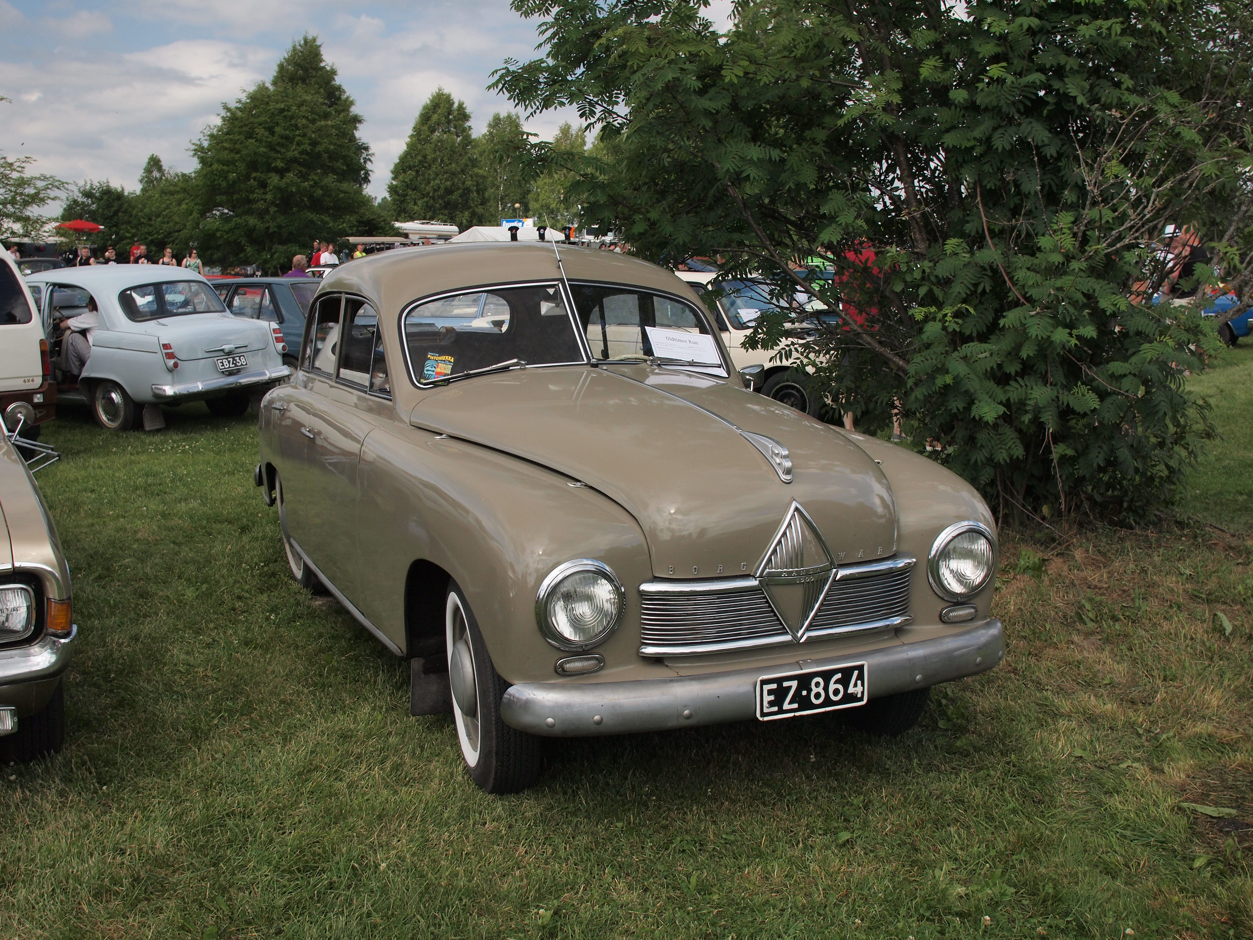 Hansa 1500 from 1952.